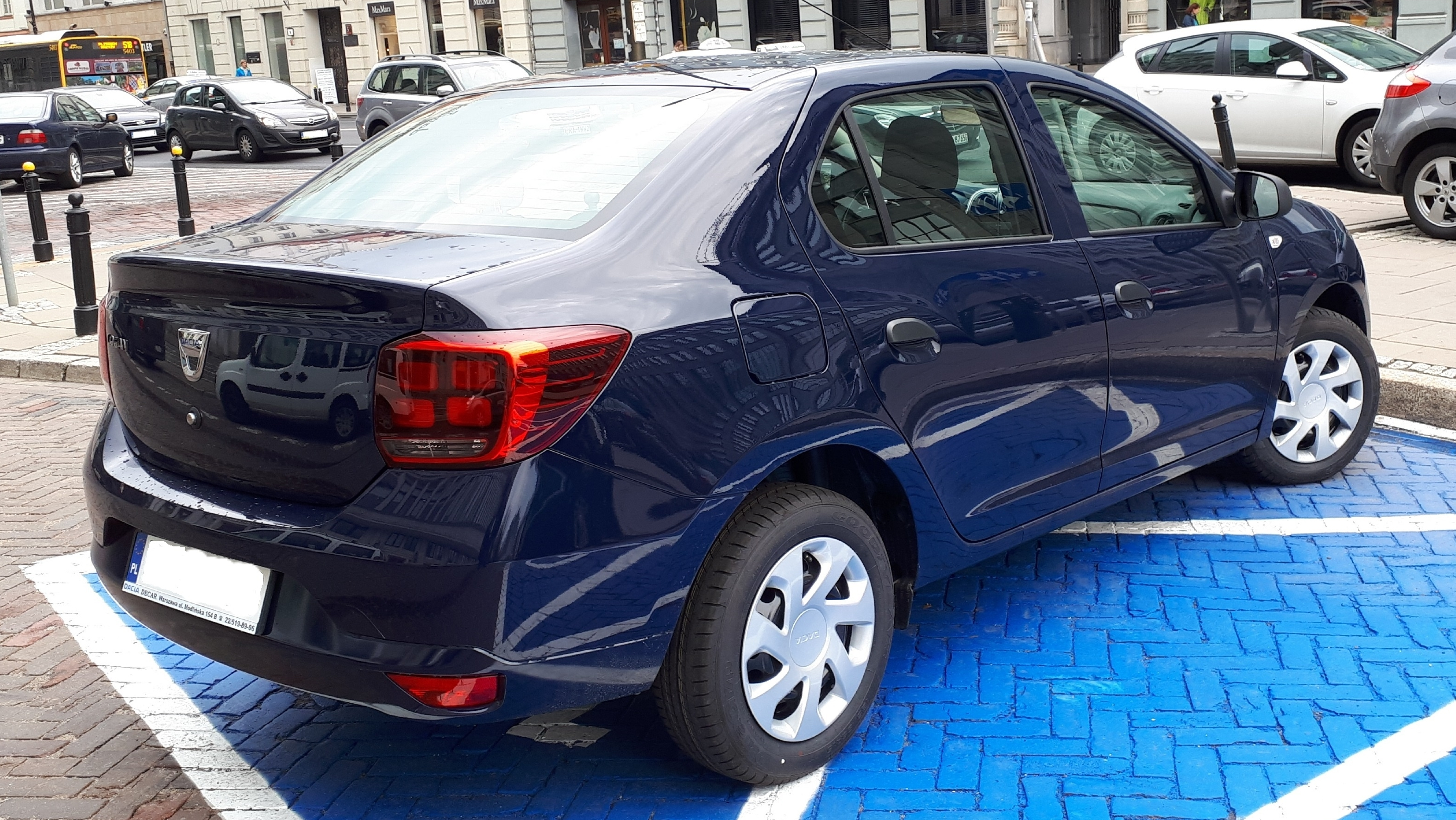 Dacia Logan in Warsaw